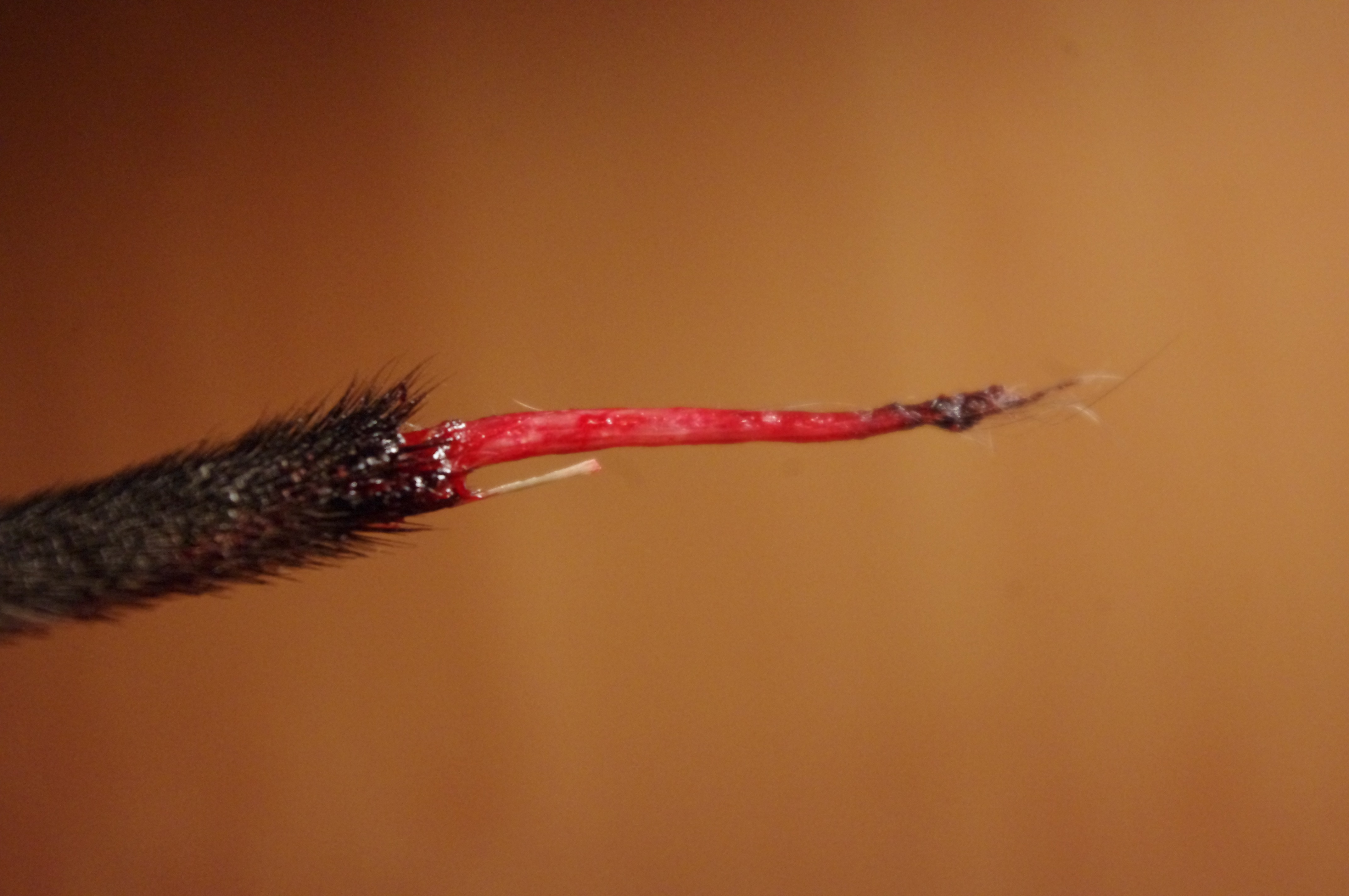 The tail of degu (Octodon degus) immidiately after autotomy.